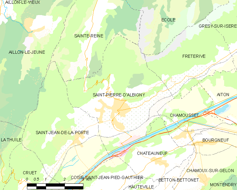 Map of French municipality Saint-Pierre-d'Albigny